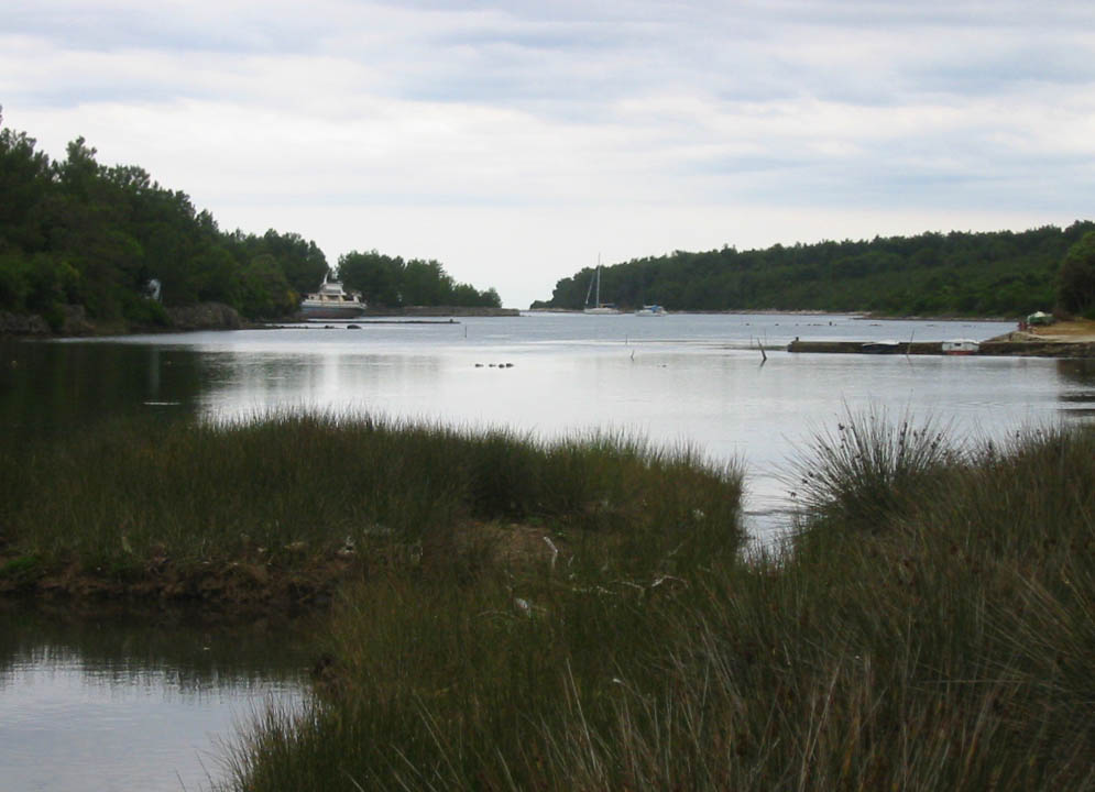 Punta križa bay at island Cres, Croatia photo:Ziga 11:59, 16 April 2007 (UTC)